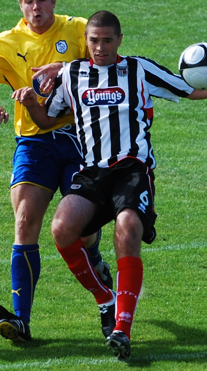 Scott Garner. Image cropped from original at flickr.